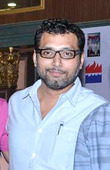 Actor Manoj Bajpayee, director Neeraj Pandey and actor Anupam Kher at the launch of the book "Special 26".